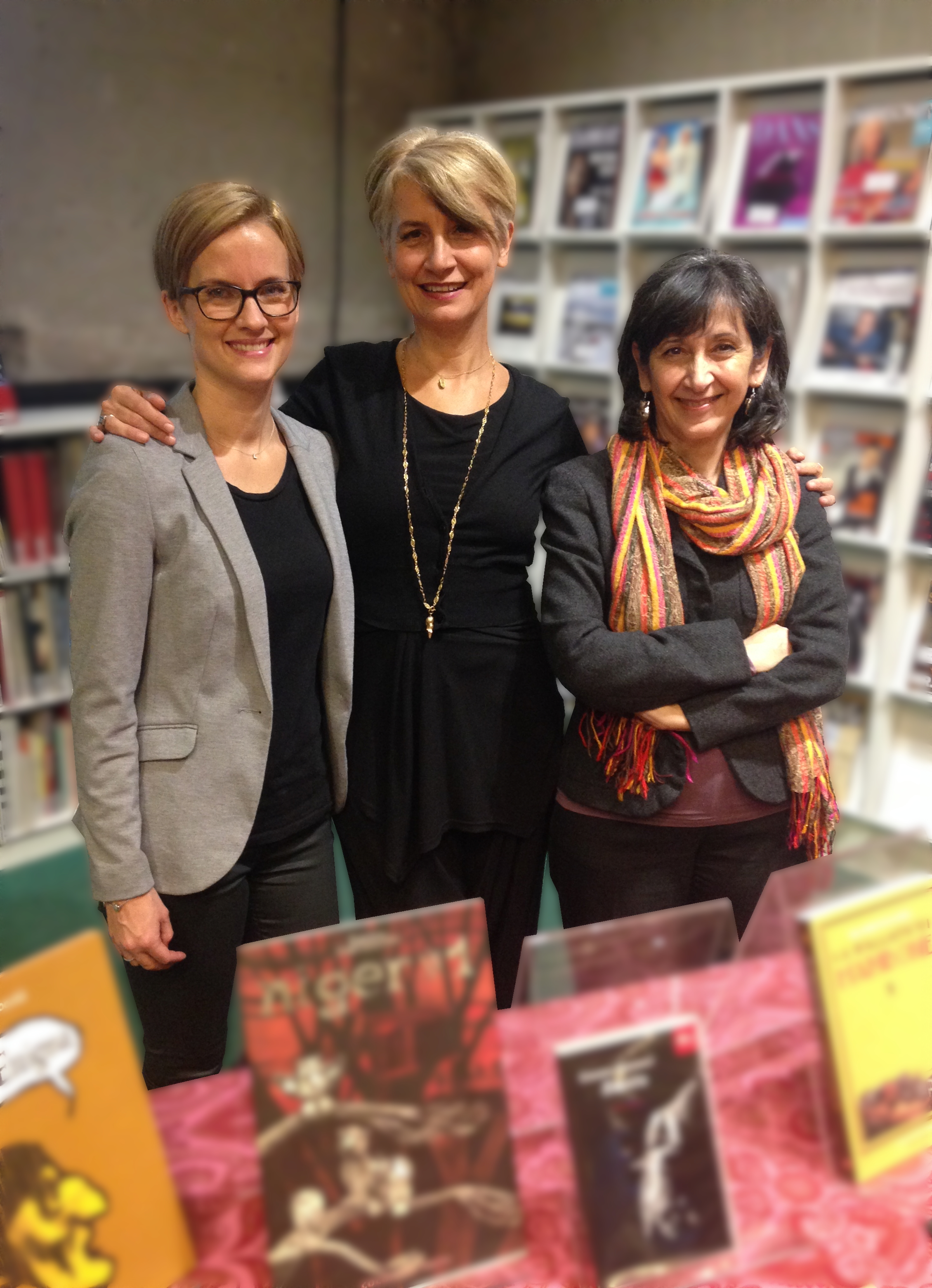 Italian cartoonist Leila Marzocchi (middle), at Serieteket in Stockholm October 2014. Together with Anna Bobeck (left) and Virginia Piombo (right) from Italienska Kulturinstitutet. (Postprocessed photo to blur out copyrighted magazine and book covers)